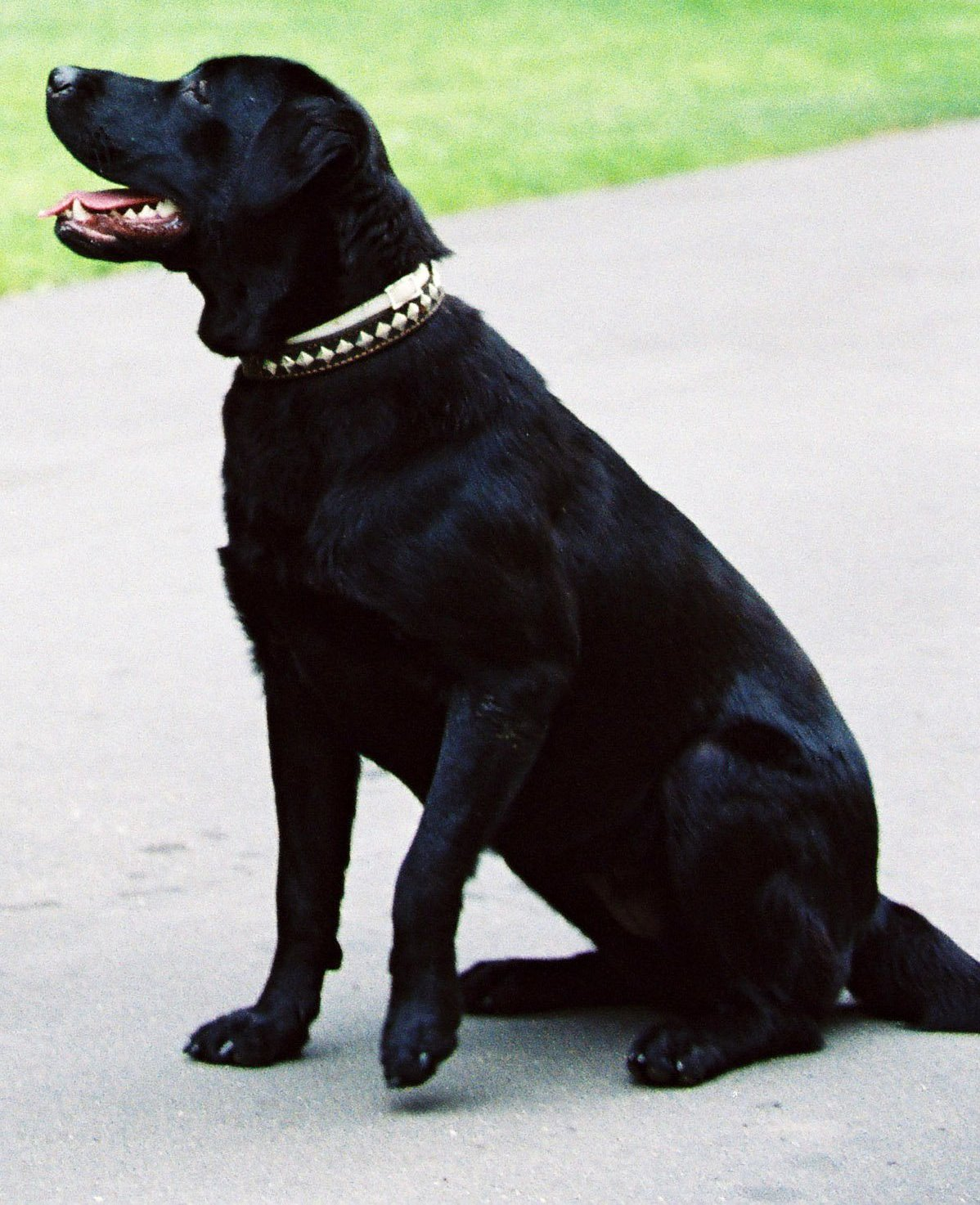 Novo-Ogaryovo. With Labrador Koni.